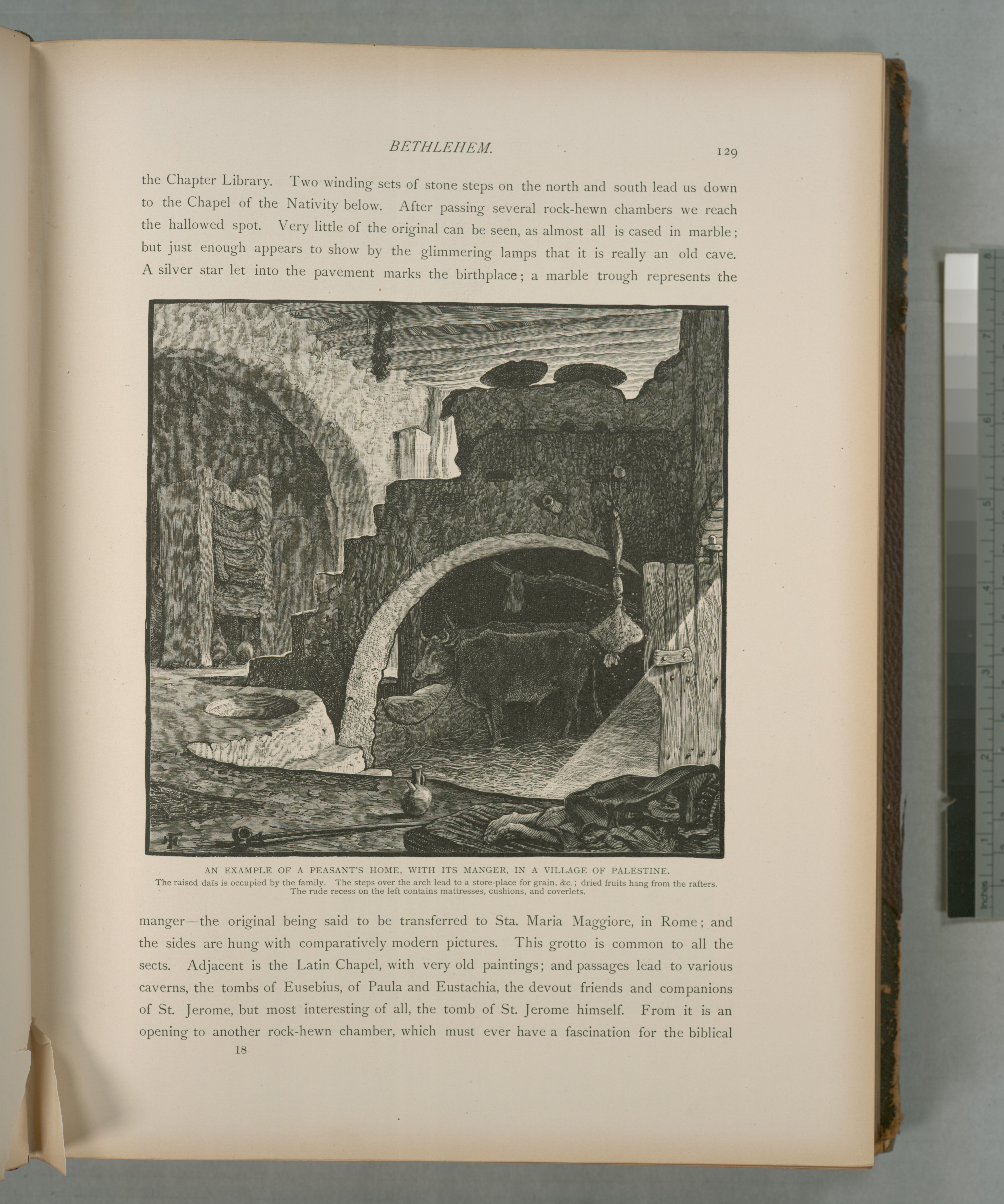 Colonel Wilson, ed.